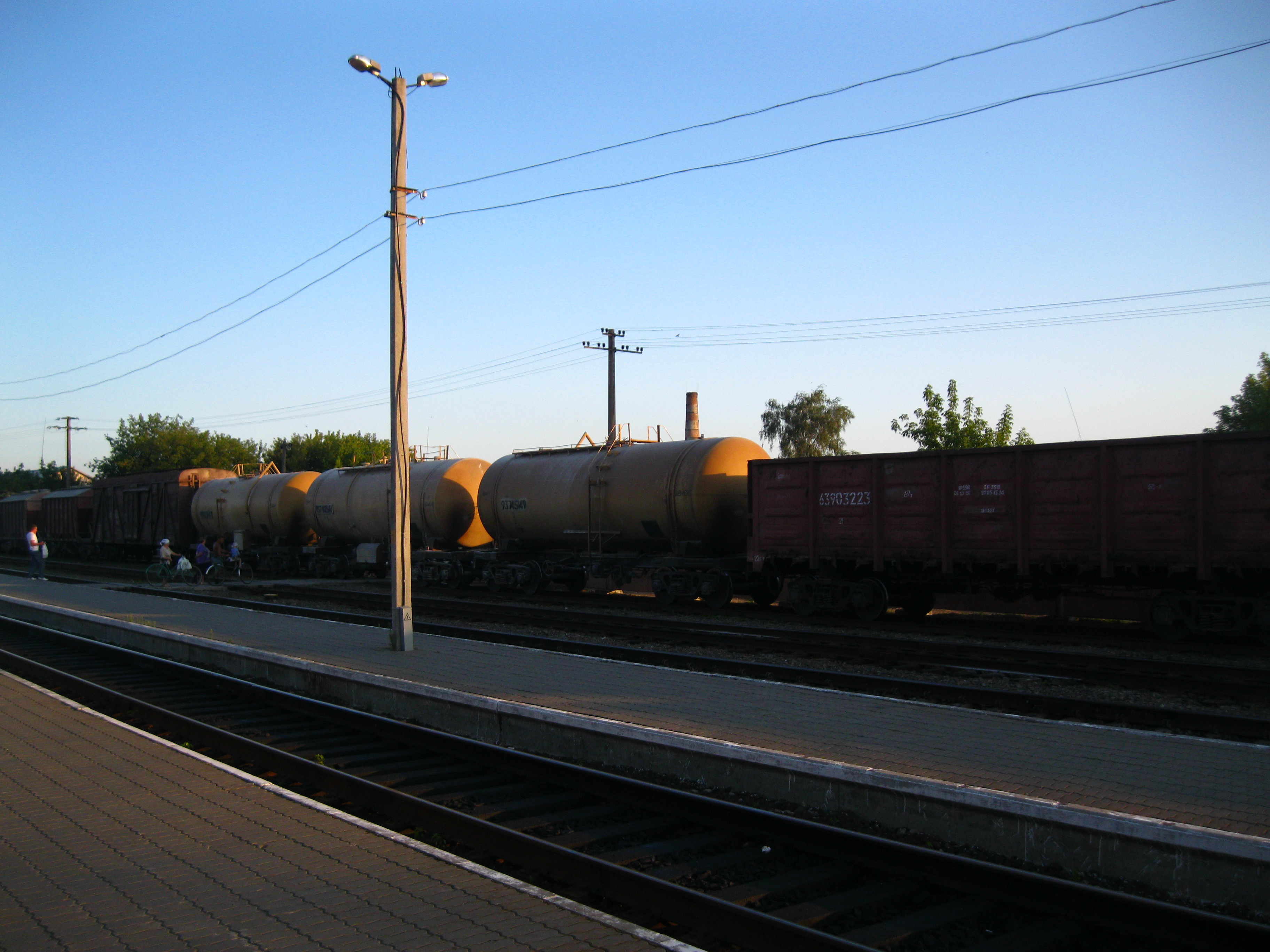 Railway platform at station Garyn, Rechitsa, Stolin district